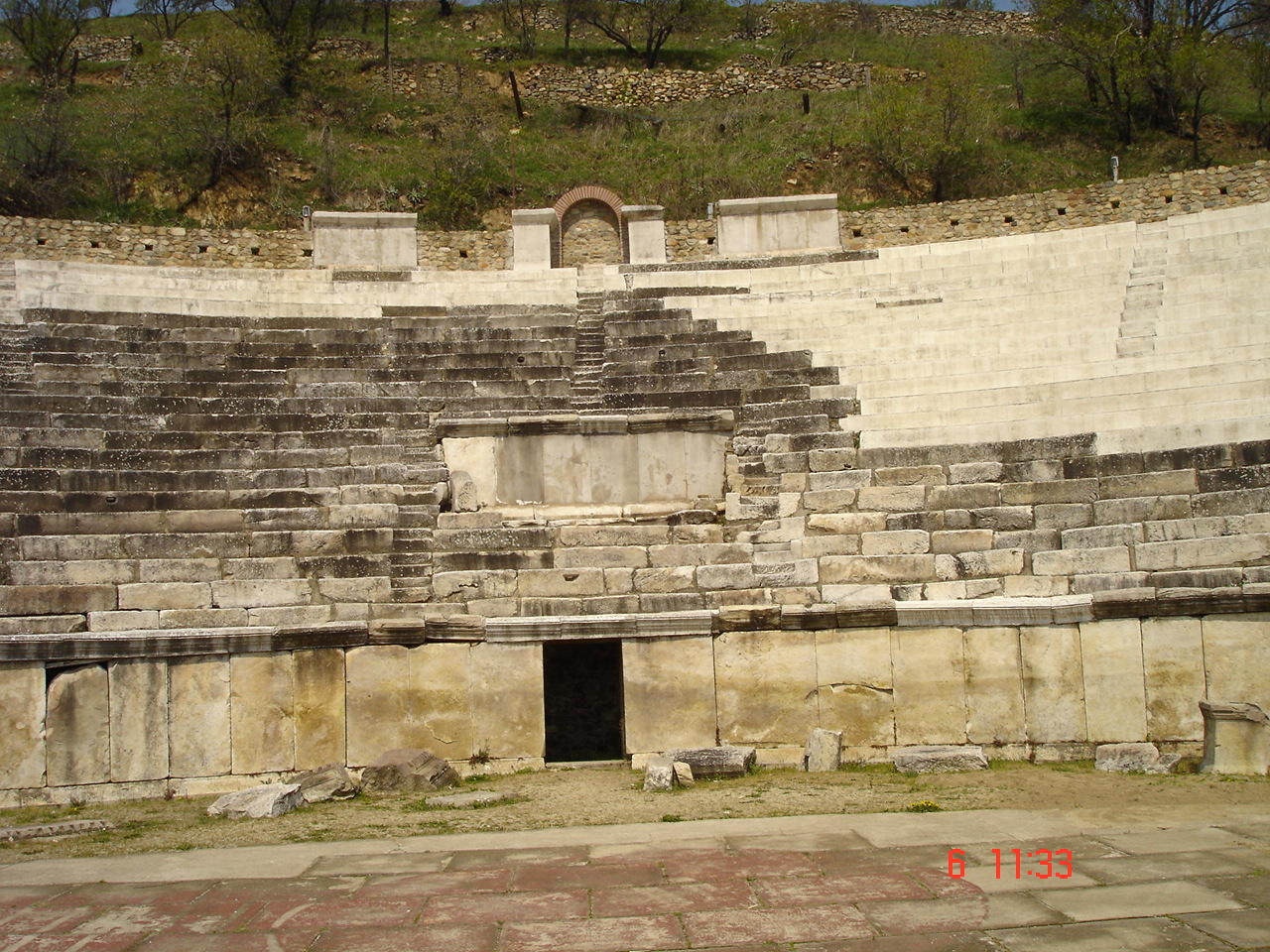 Amphitheater of Heraclea Lyncestis, ancient Macedonian city founded by Phillip II, near Bitola, Macedonia